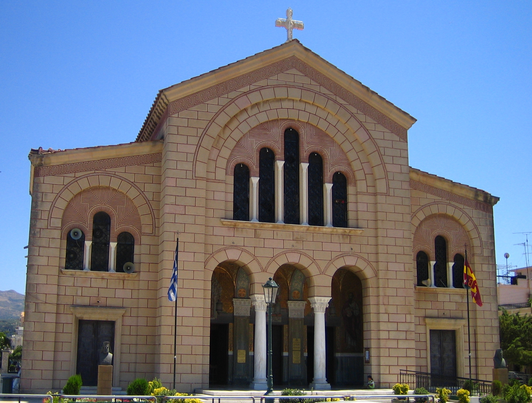 Saint Dionysios Cathedral in Zakinthos city, Greece